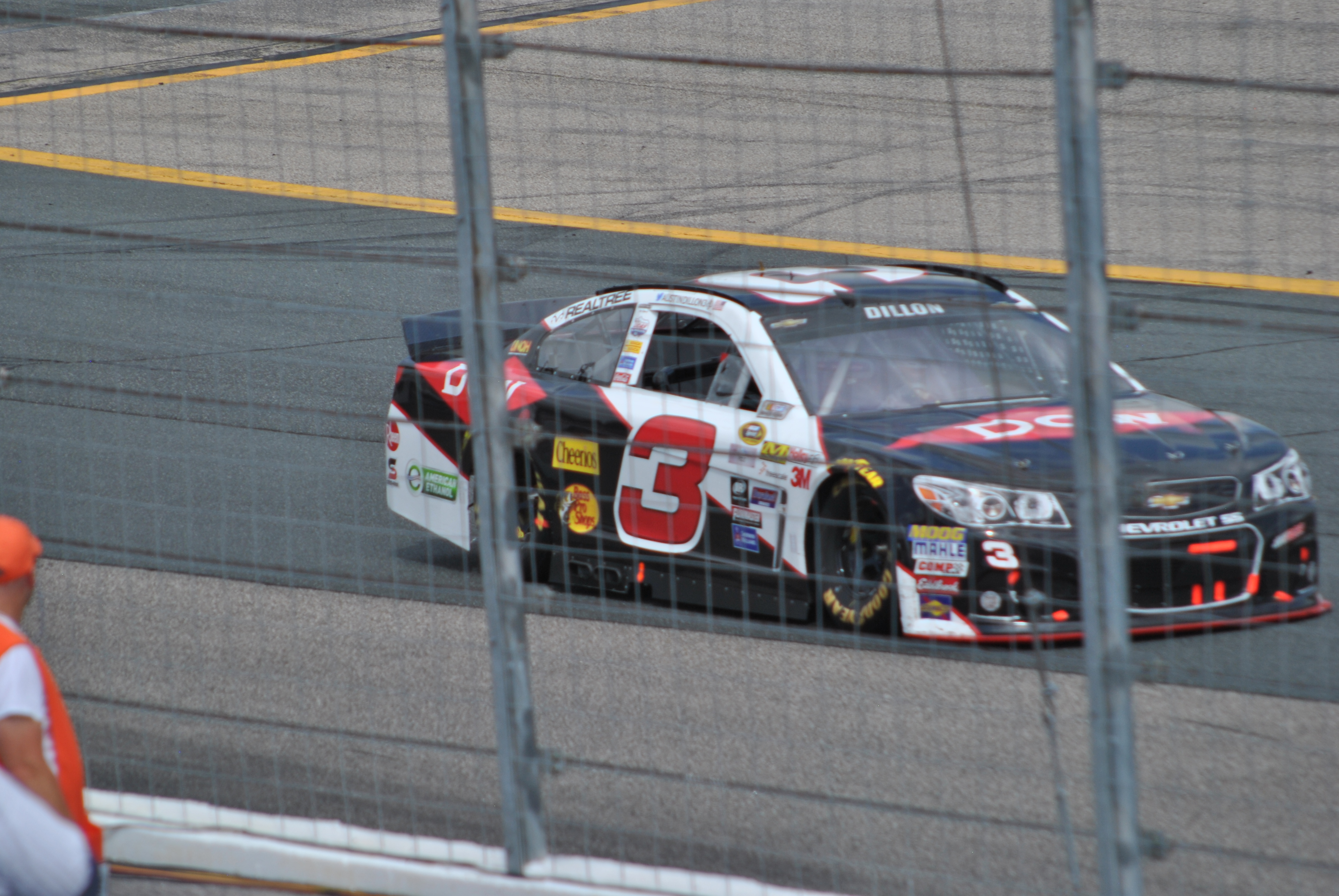 Austin Dillon in Dow Chemicals #3 Richard Childress Racing Chevy